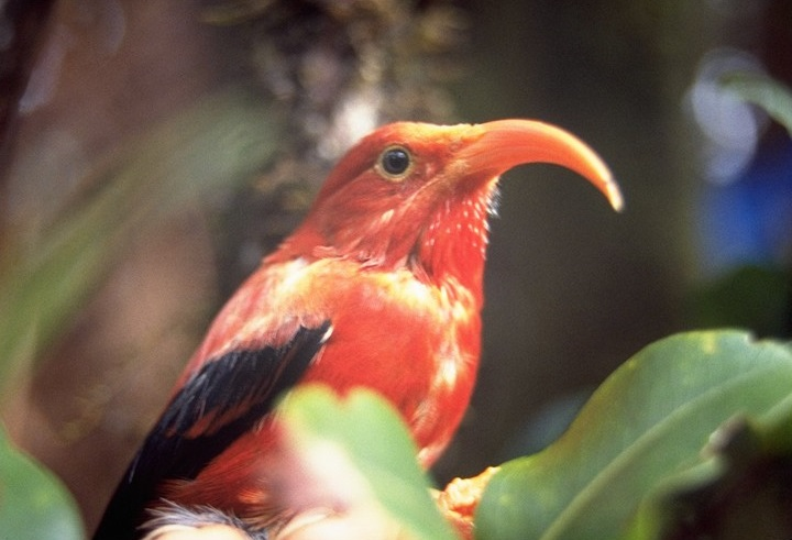 Iiwi Honeycreeper, Vestiaria coccinea